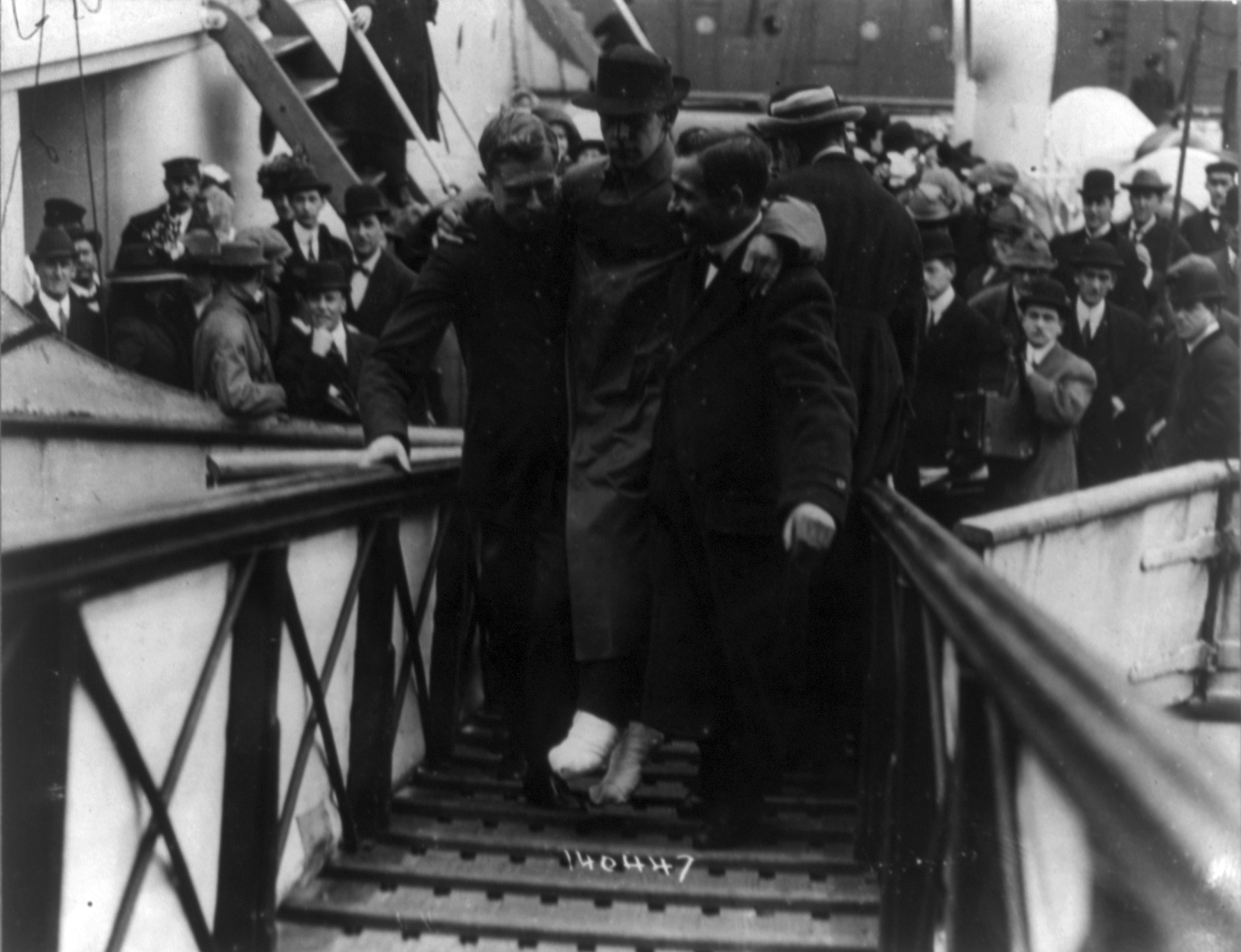 Harold Sydney Bride, radio operator on the RMS Titanic, with feet bandaged, being carried up the ramp of a ship